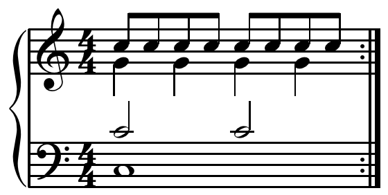 Divisive rhythm: 1 whole note = 2 half notes = 4 quarter notes = 8 eighth notes = 16 sixteenth notes... Created by Hyacinth (talk) using Sibelius 5.